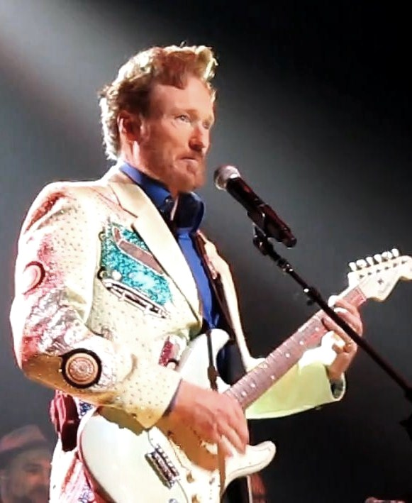 Screenshot of Conan O'Brien performing a cover of "I Will Survive" during his "Legally Prohibited" tour in Eugene, OR. Screenshot taken from a video taken by me.